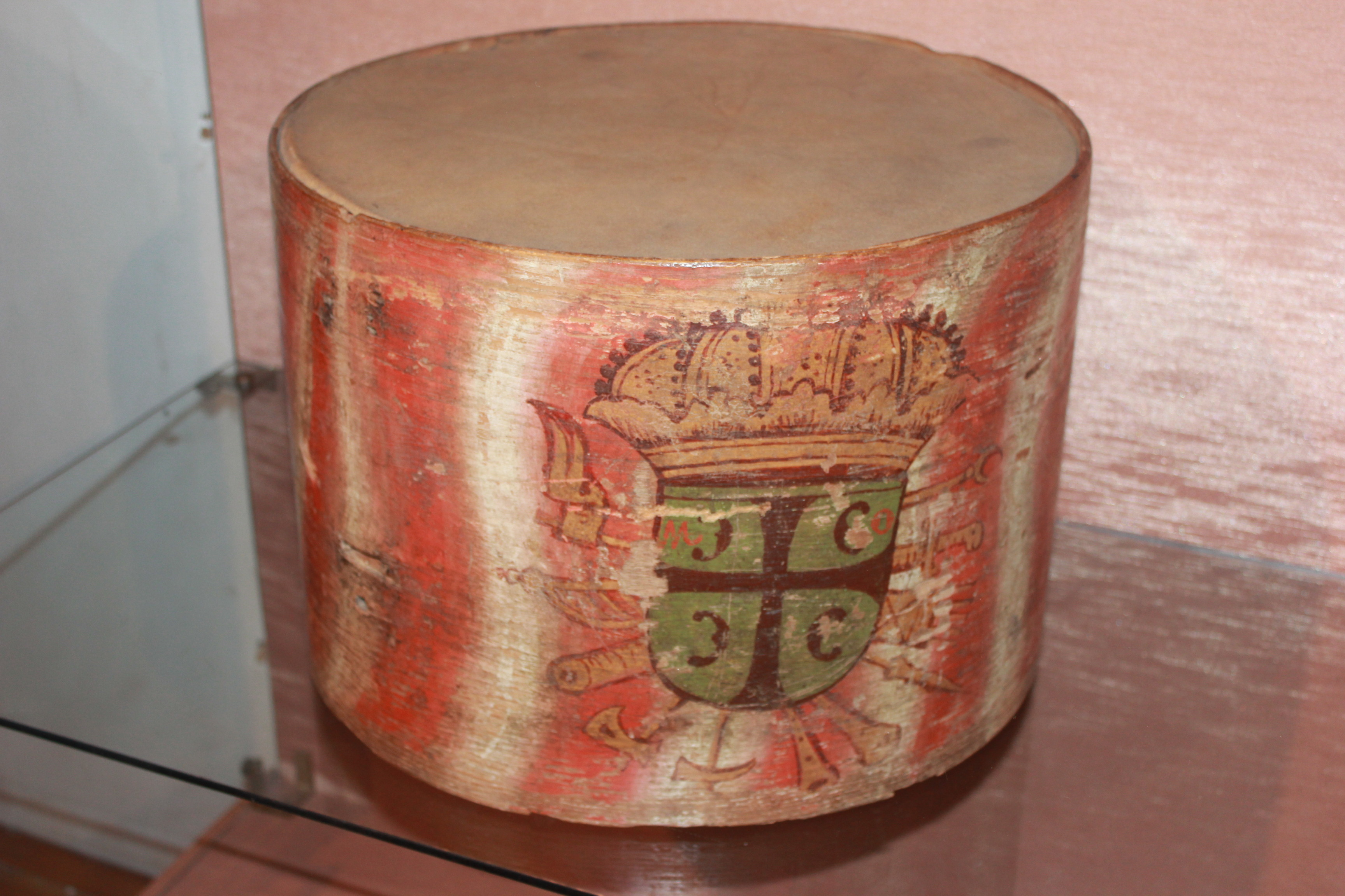 Drum used by priest Milentije Nikšić to summon remains of Serbian armz after death of Tanasko Rajić